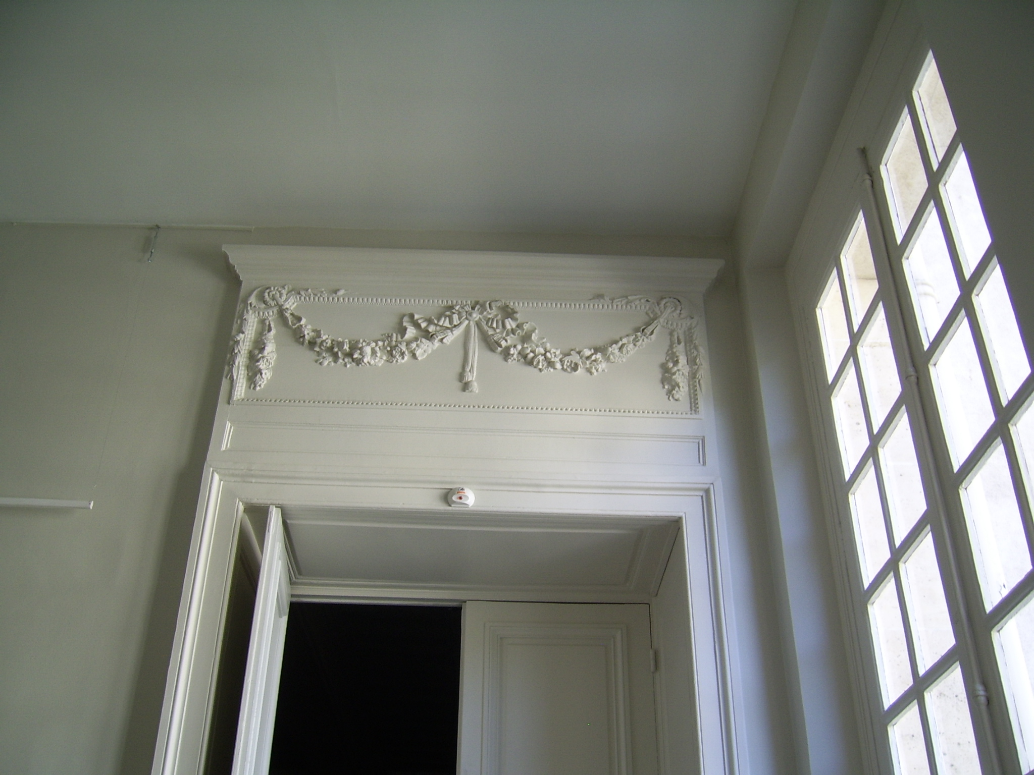 Interior detail from Hotel de Marle in Paris, France, home to the Swedish institute Centre Culturel Suédois.